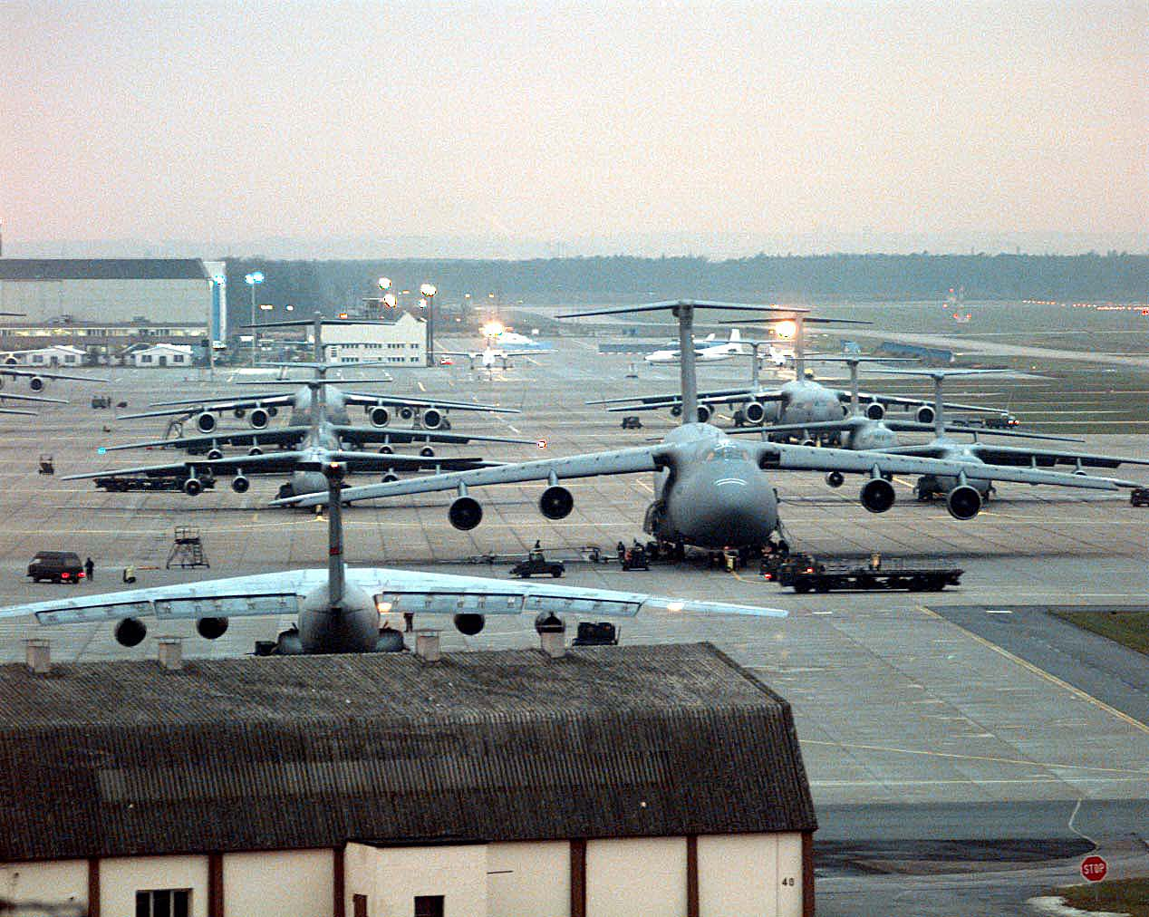 U. S. Air Force C-141 Starlifters, C-5 Galaxy's, and C-17 Globemaster III's, are staged on the ramp of Rhein-Main Air Base, Germany, on December 12, 1995. Long known as the "Gateway to Europe", Rhein-Main has become a marshaling point for the NATO Enabling Force of Operation Joint Endeavor. Enabling forces are moving into the Croatia, Bosnia and Herzegovina, and Slovenia theaters of operation to prepare entry points for the main Implementation Force.